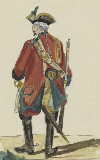 dragoner (1760) Armee von Hessen-Darmstadt